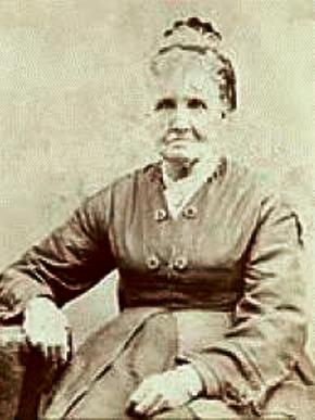 Photograph of Sarah Marinda Bates Pratt